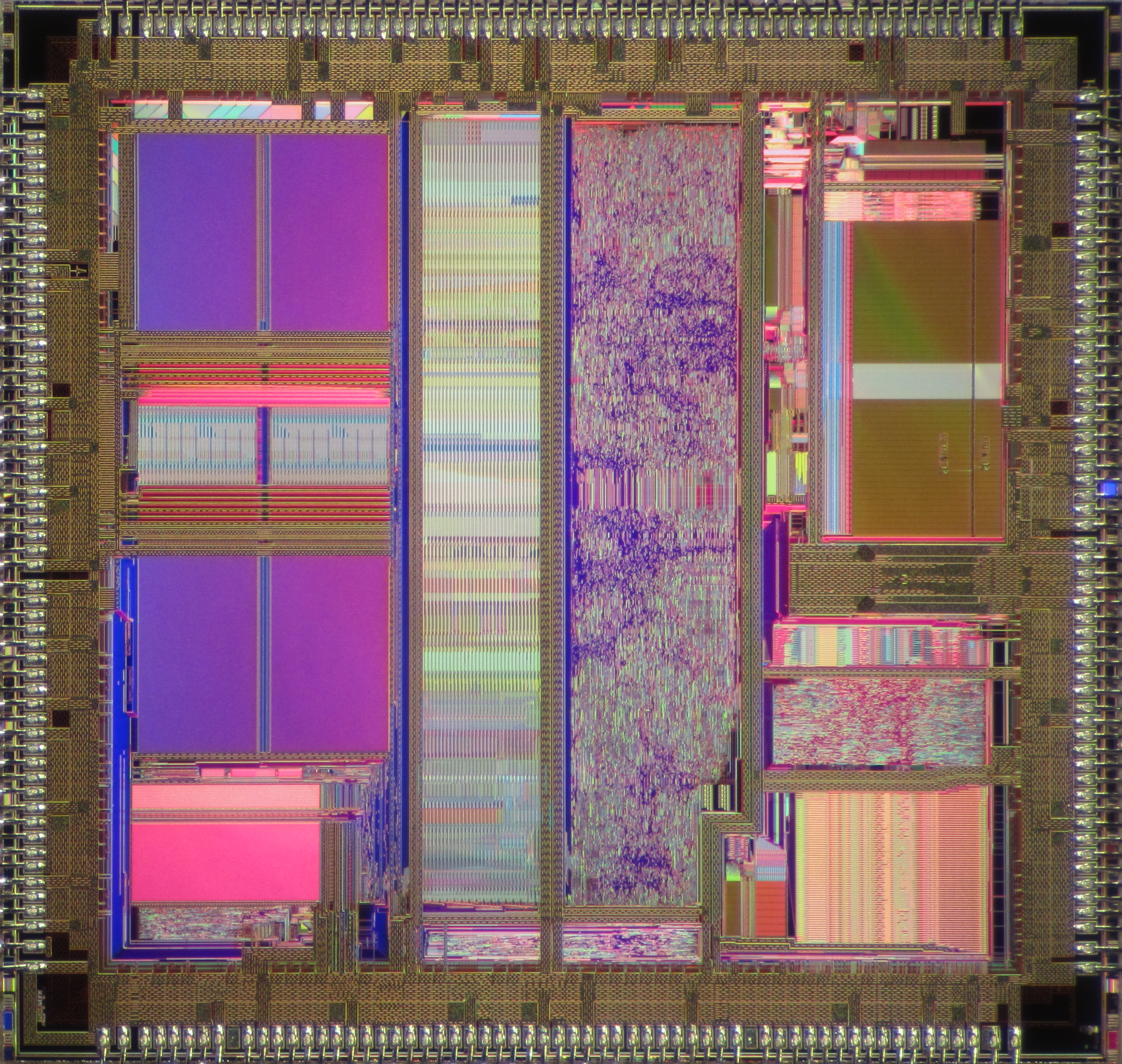 Die shot of AMD Enhanced Am486 DX4-120 (A80486DX4-120SV8B).